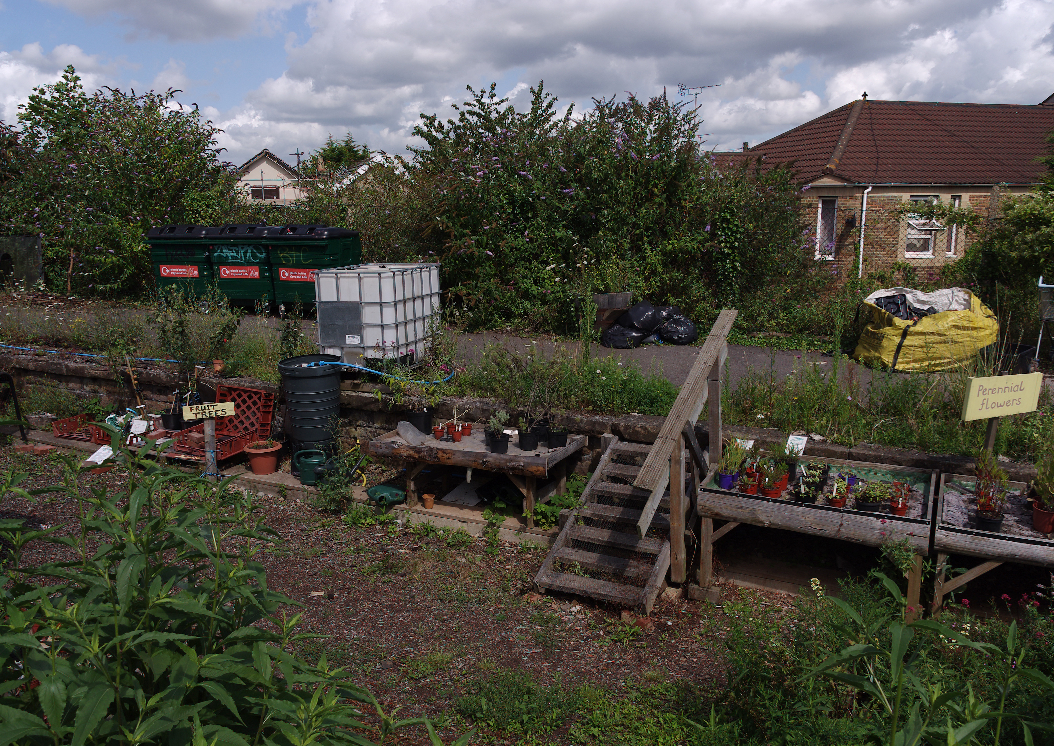 The Eastside Roots garden/community centre at Stapleton Road railway station, Bristol. The garden is set up in the disused eastern trackbed, but will have to move when the line is brought back into use as part of the Great Western Main Line electrification scheme.